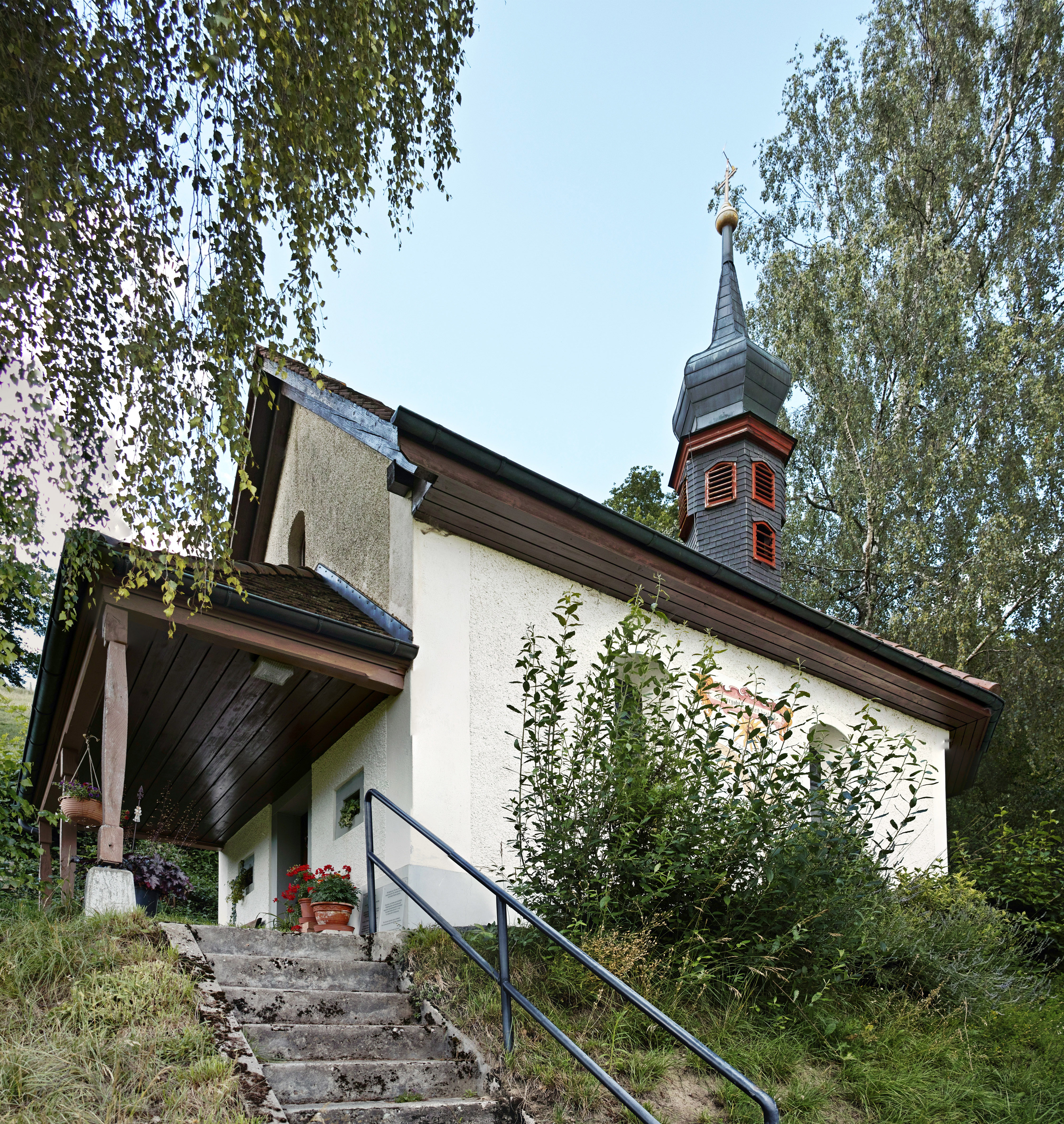 Marienkapelle (Chapel of Our Lady) or "Kapelle Maria Opferung" (Chapel of Presentation of Mary) in Niederwil, part of the former municipality of Ohmstal and now in the municipality of Schötz in the canton of Lucerne, Switzerland.